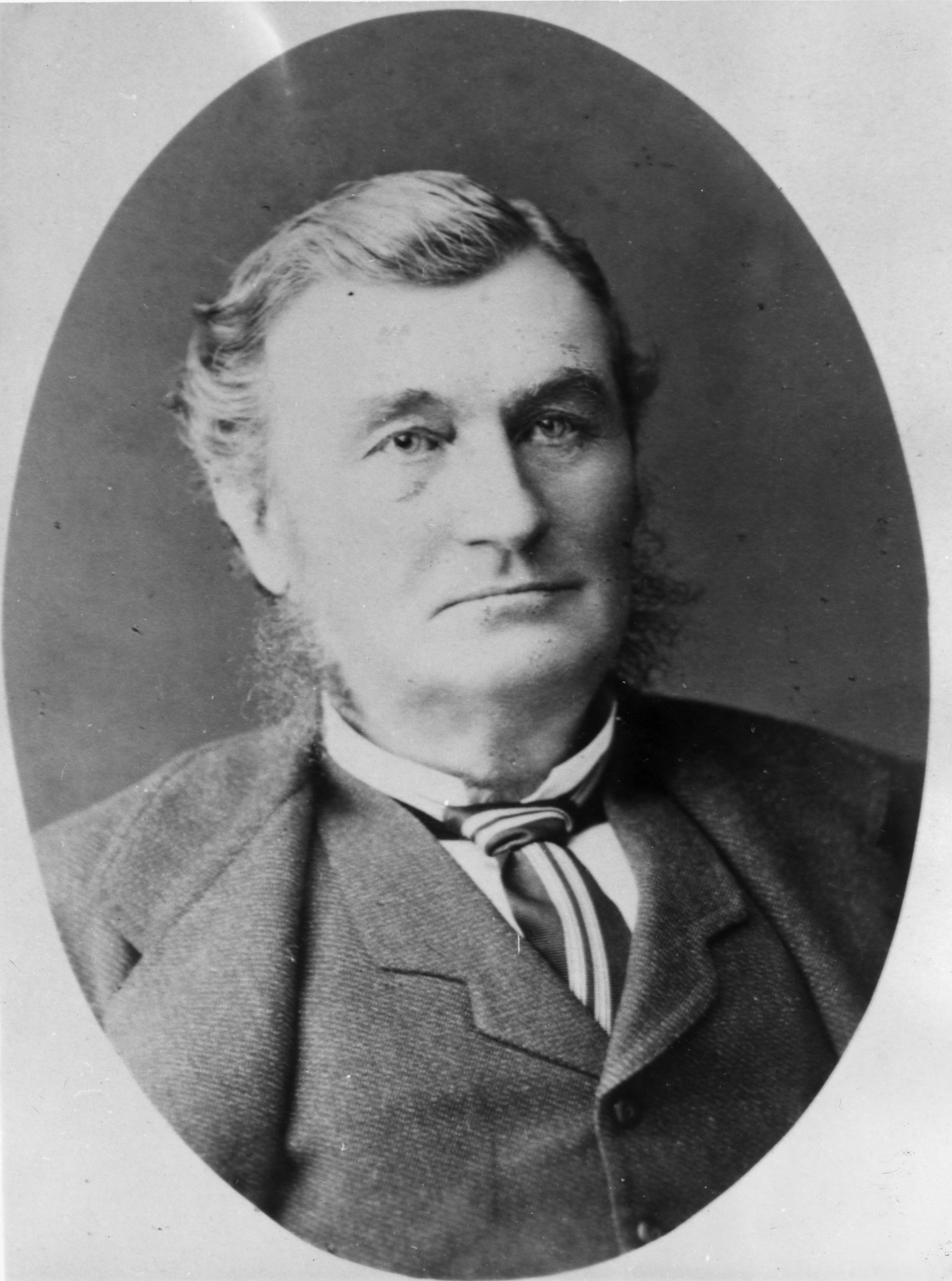 Formal head and shoulders portrait of William Robinson. Taken by an unidentified photographer.